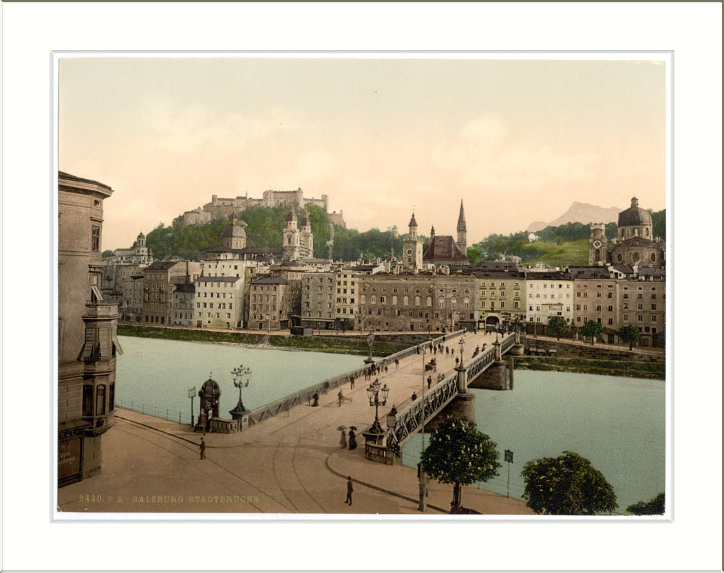 Town bridge Salzburg Austro-Hungary